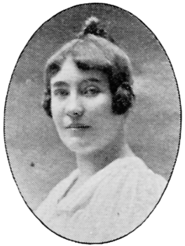 Image scanned from the book "Svenskt Porträttgalleri XX - Arkitekter, Bildhuggare, Målare m.fl. " ("Swedish Portrait Gallery XX - Architects, Sculptors, Painters, ") published 1901